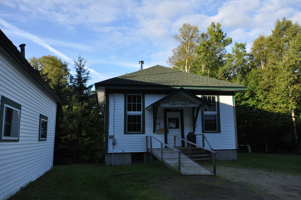 Town Hall, Rangeley Plantation (not to be confused with the town of Rangeley), Maine.